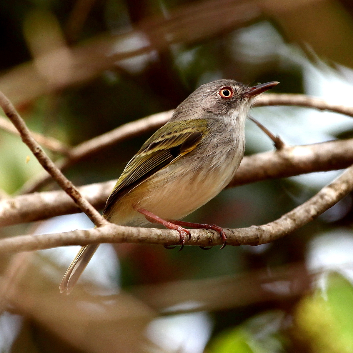 Pearly-vented Tody-tyrant at Bonito - MS - Brazil